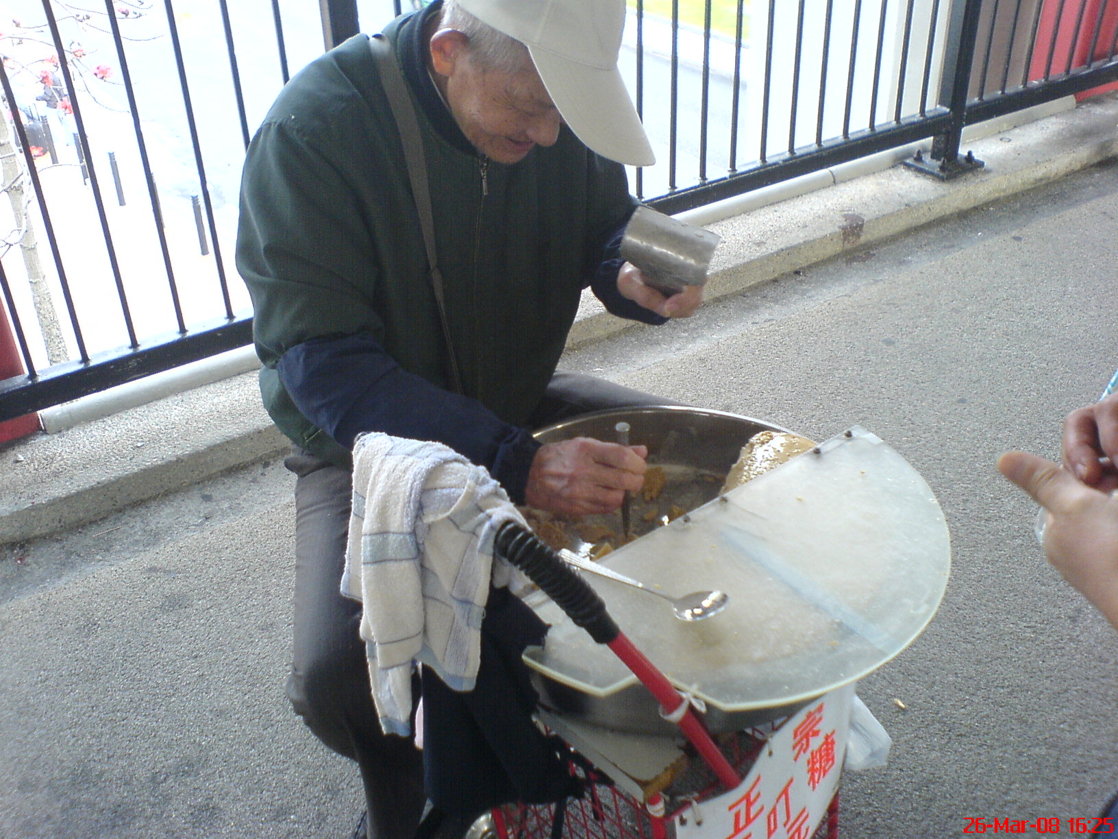 DeungDeungTong, a sugary sweet found in Hong Kong and Cantonese speaking area. 啄啄糖（啄讀陽聲韻，督梁切，deung1），有時錯寫做叮叮糖或丁丁糖，係香港一隻糖。啄啄糖本身係一大塊有芝麻同薑味嘅硬麥芽糖。